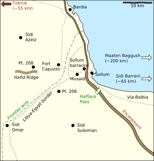 A map of the area in which Operation Battleaxe was fought